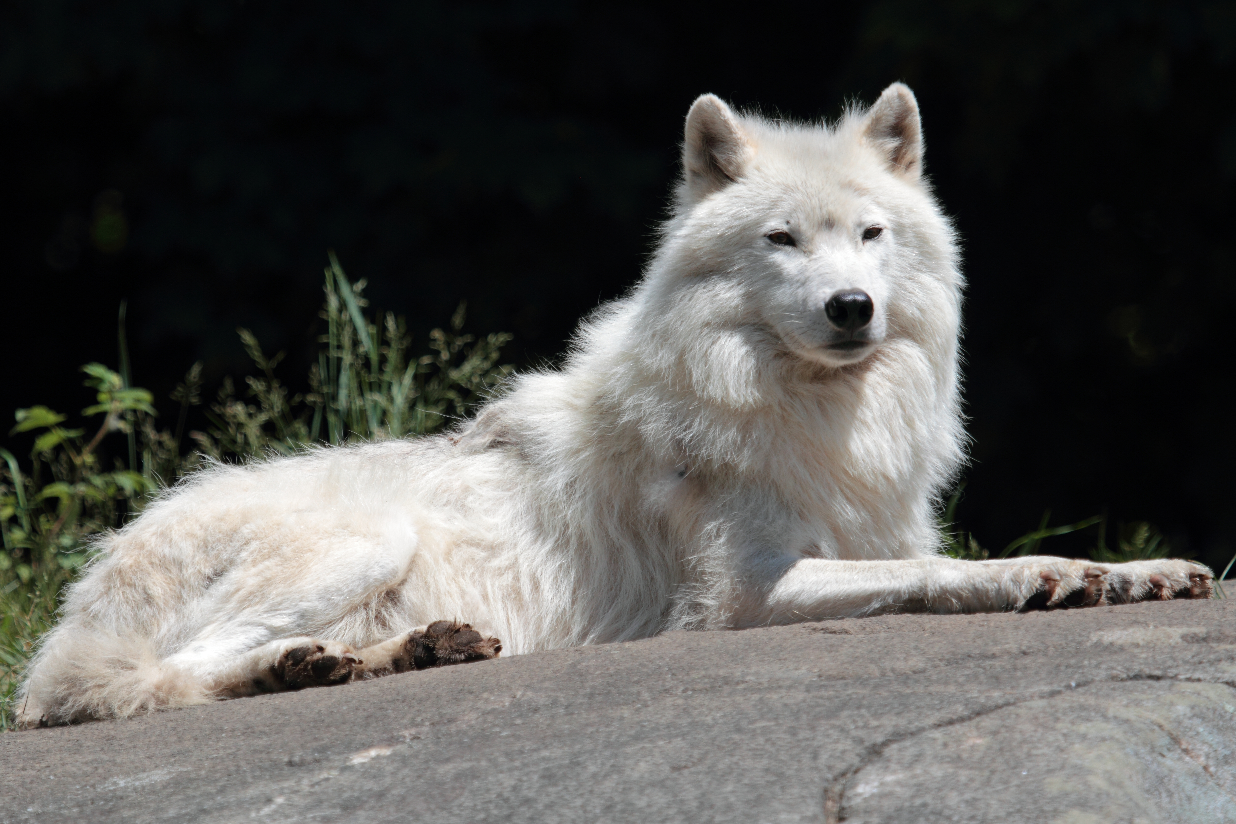 Arctic wolf, Parc Omega, Quebec, Canada